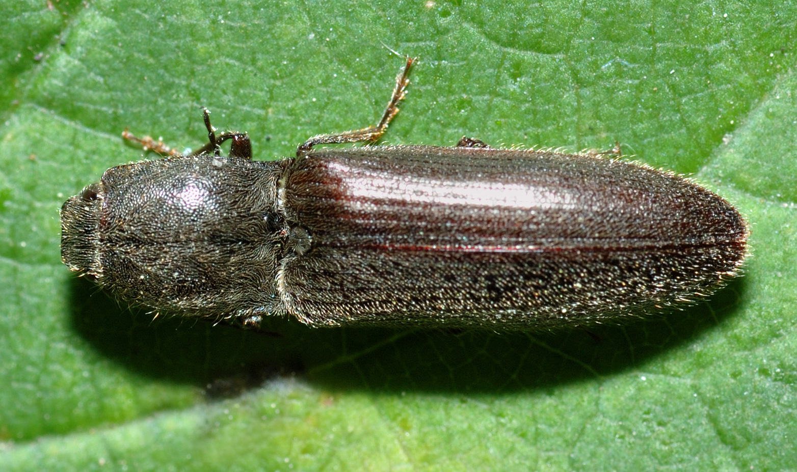 This image shows beetle of the species Athous haemorrhoidalis.